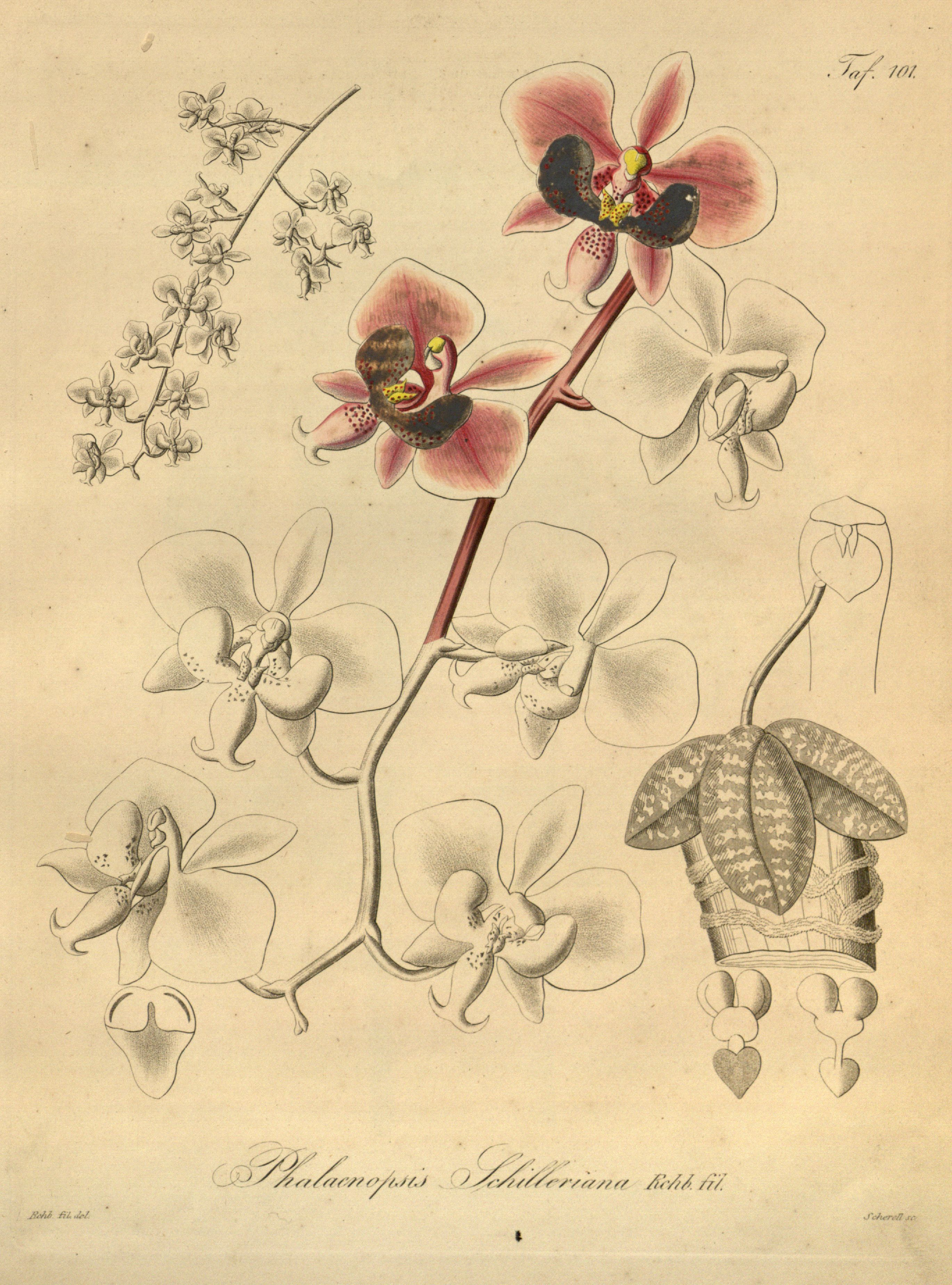 Illustration of Phalaenopsis schilleriana